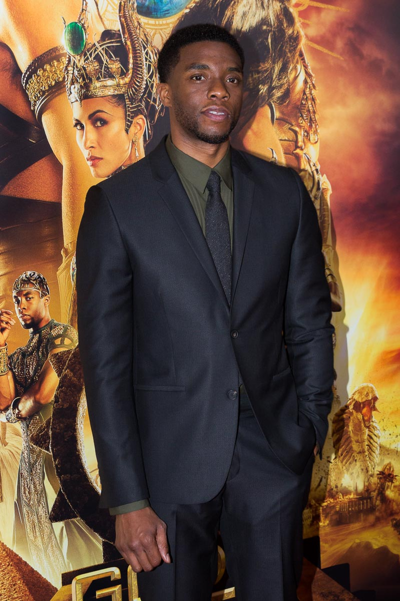 Chadwick Boseman on the red carpet for 'Gods of Egypt' in New York City on February 24, 2016.